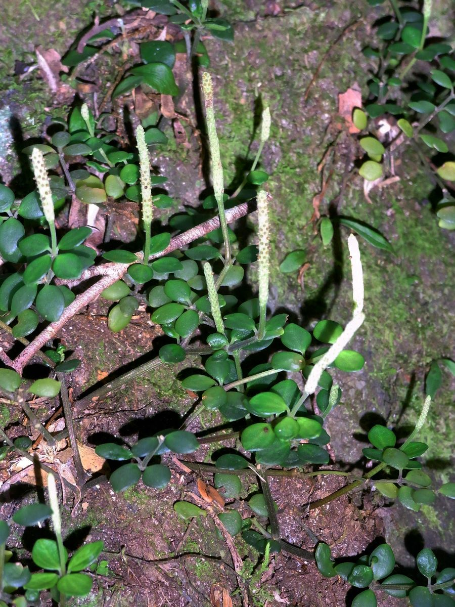 Four-leaved Peperomia. Minnamurra Rainforest, NSW, Australia. Peperomia tetraphylla